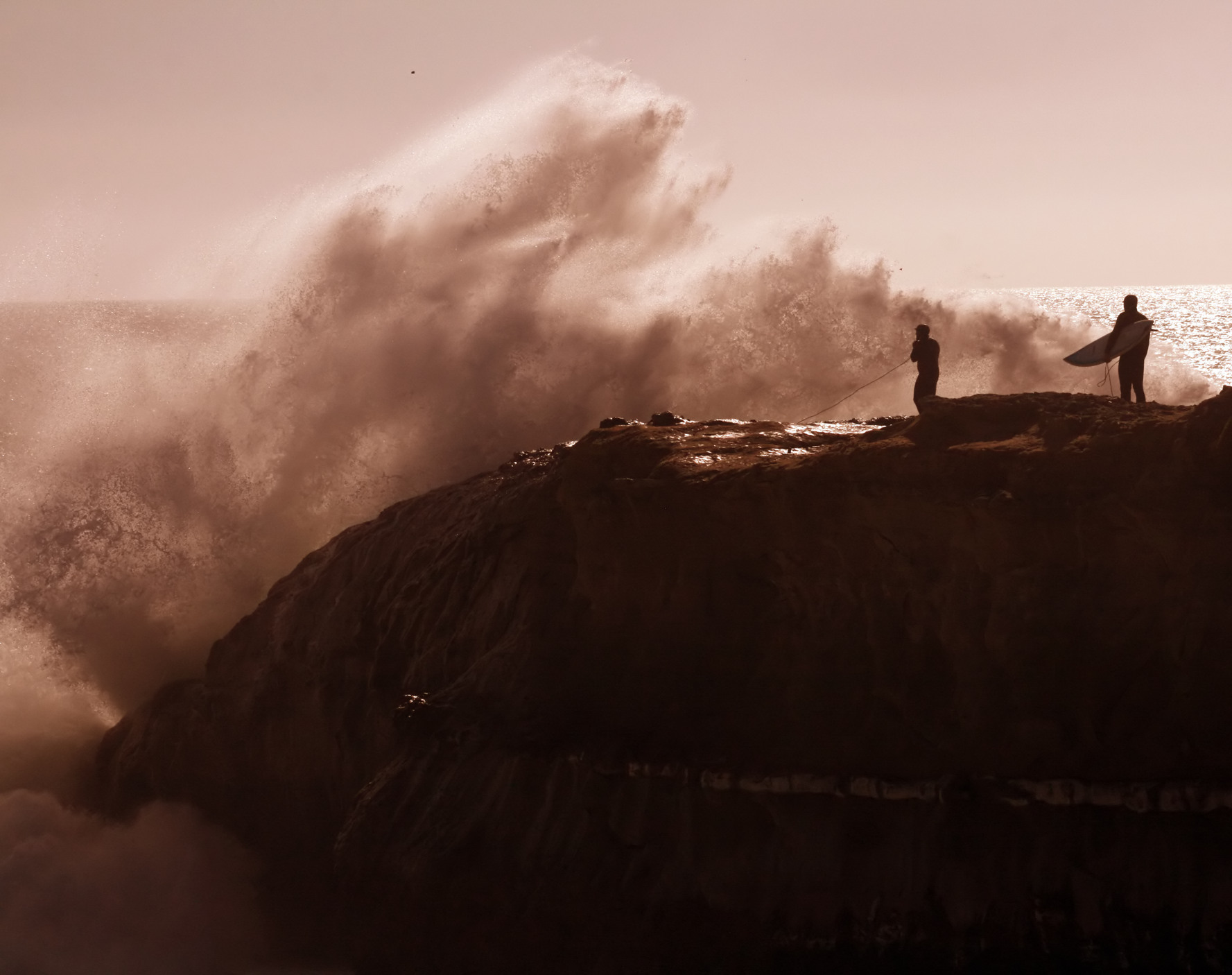 California surfers in Santa Cruz